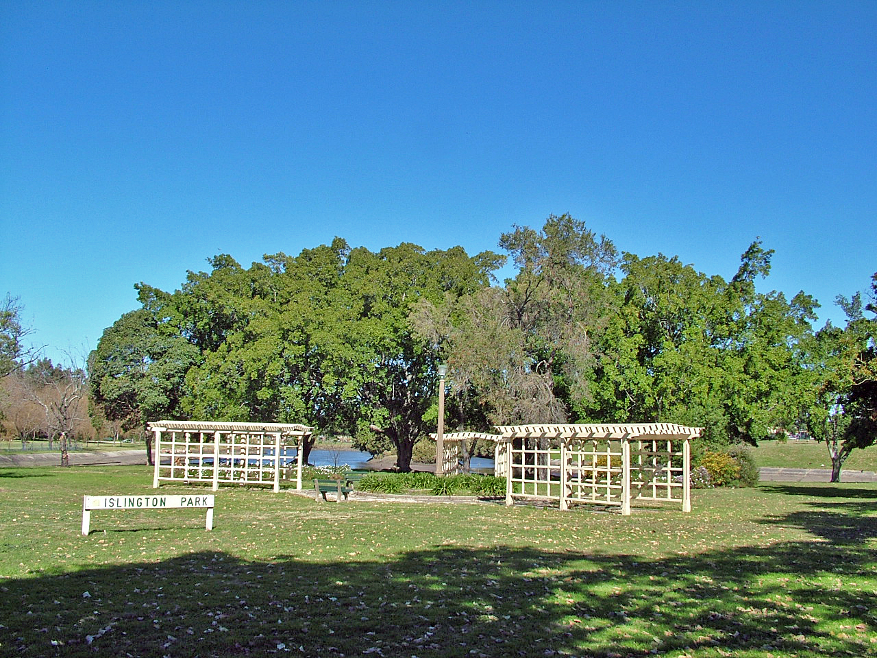 Islington public park, Newcastle, New South Wales